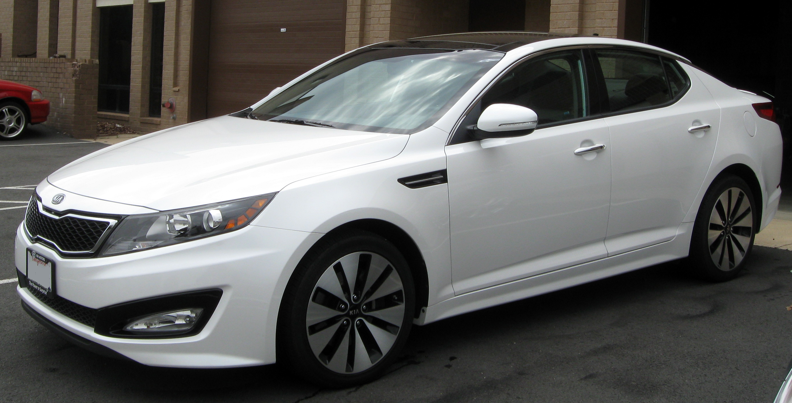 2011 Kia Optima photographed in Chantilly, Virginia, USA.